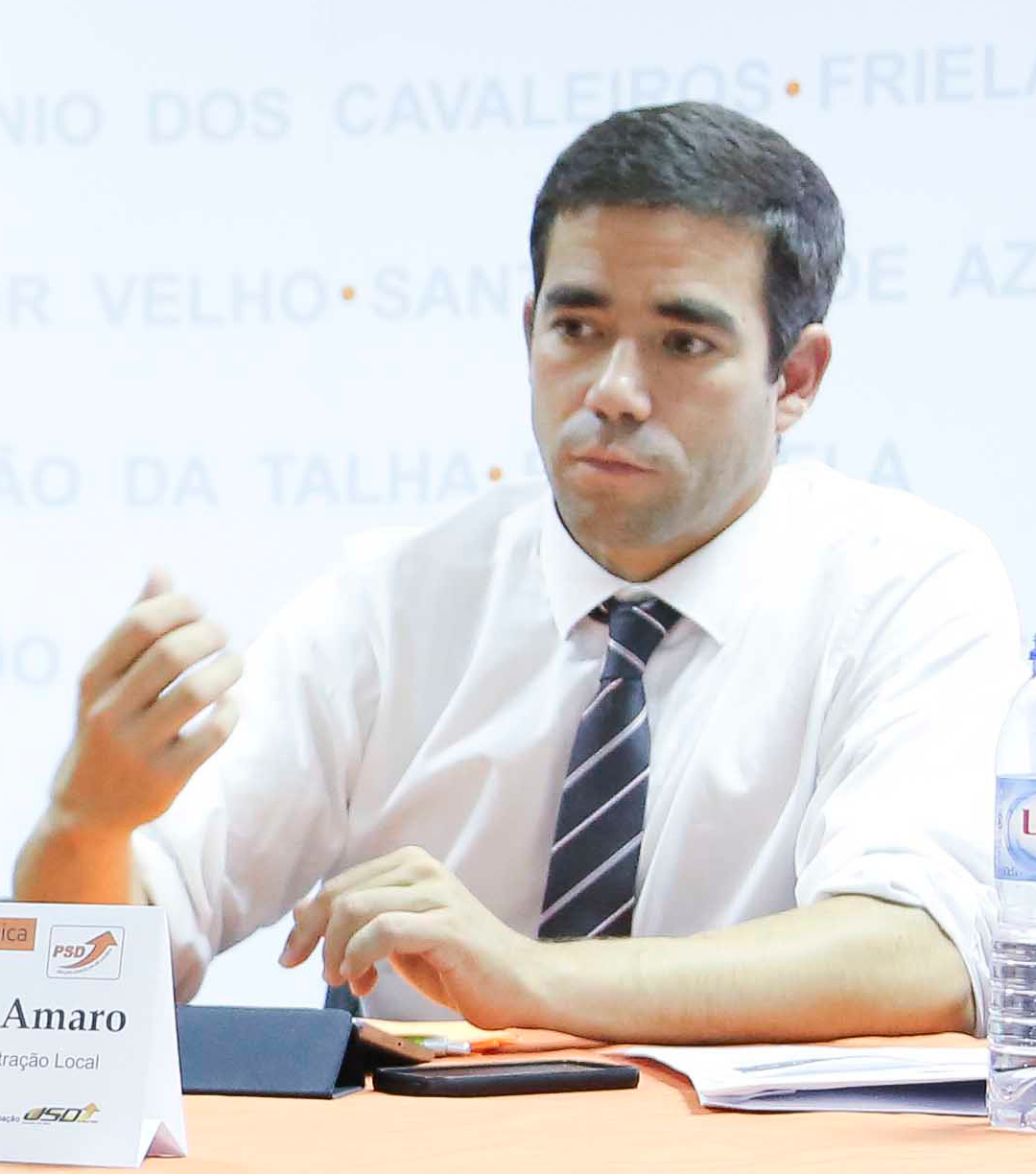 António Leitão Amaro, Portuguese politician and jurist, in 2014.